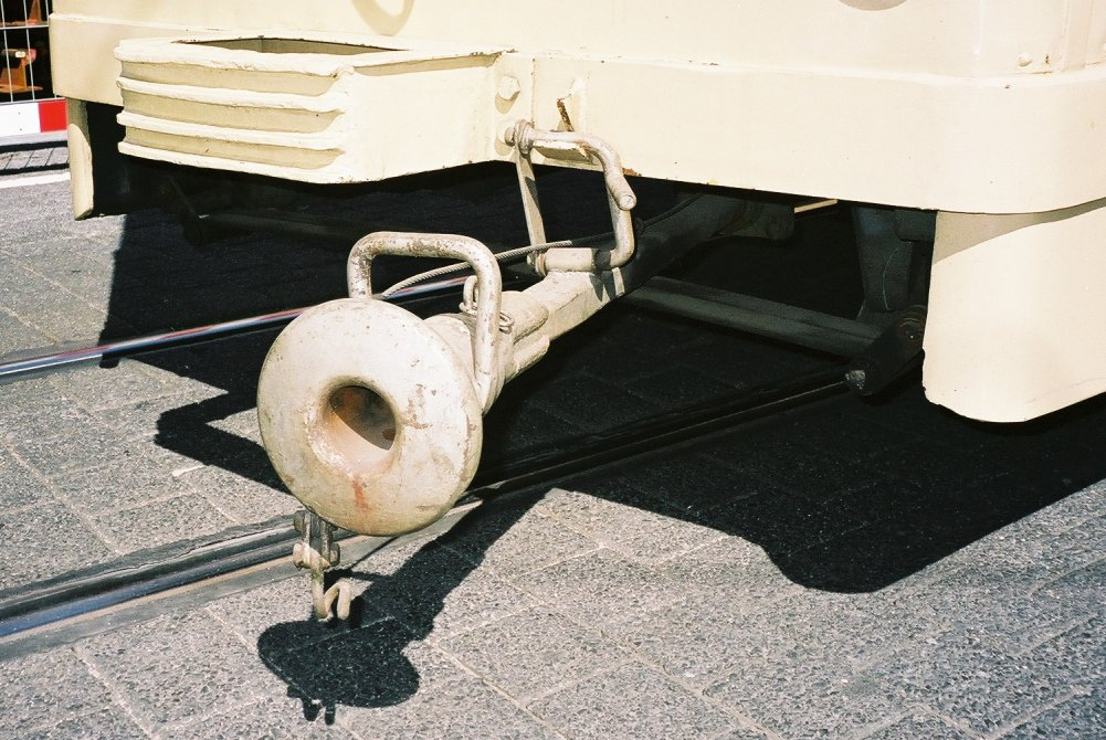 A railway coupler, in germany called Trompetenkupplung My own photo taken at may 30, 2004 in Darmstadt, Germany